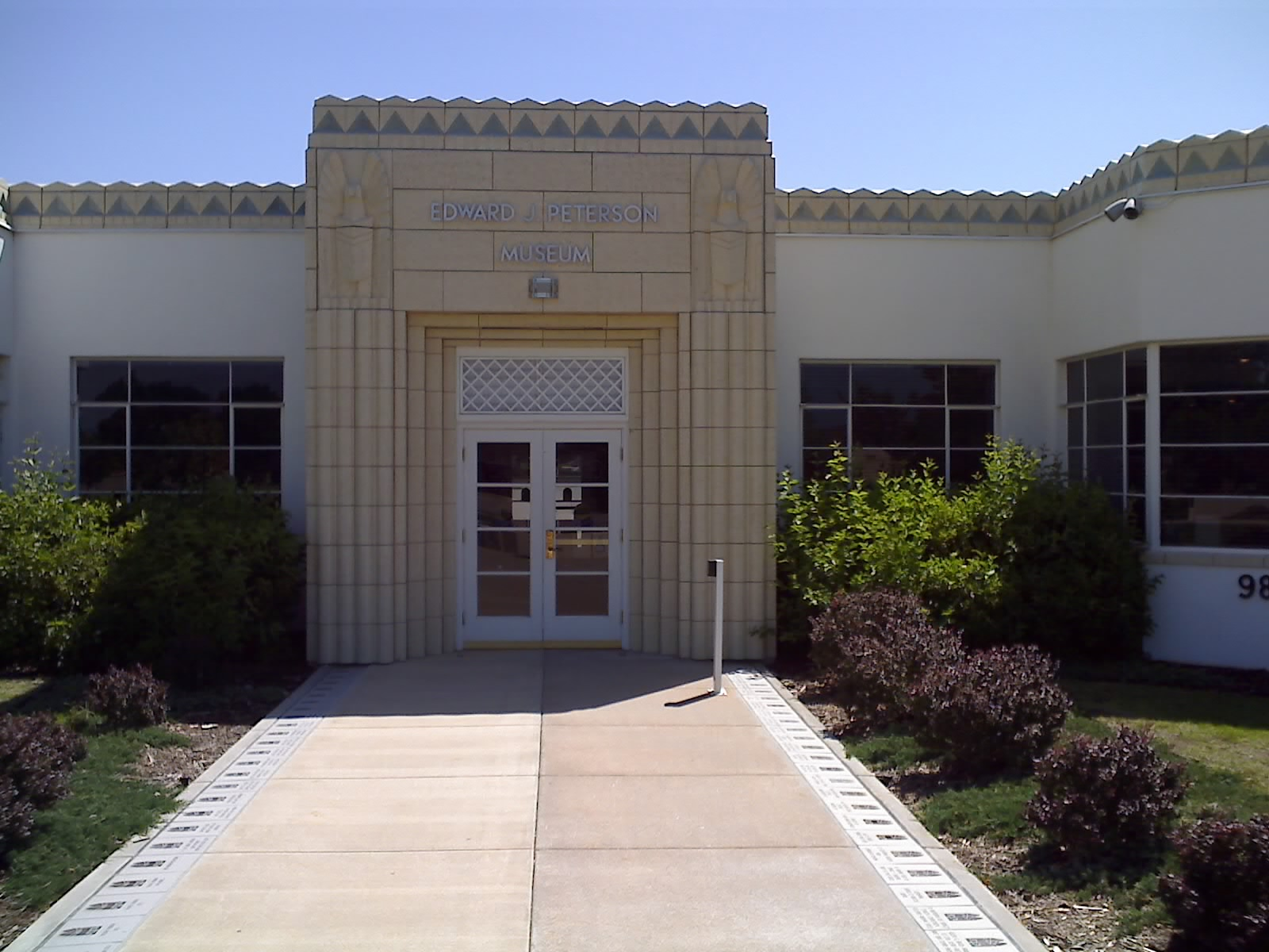 Peterson Air Force Base Museum AKA Colorado Springs Airport terminal circa 1930's